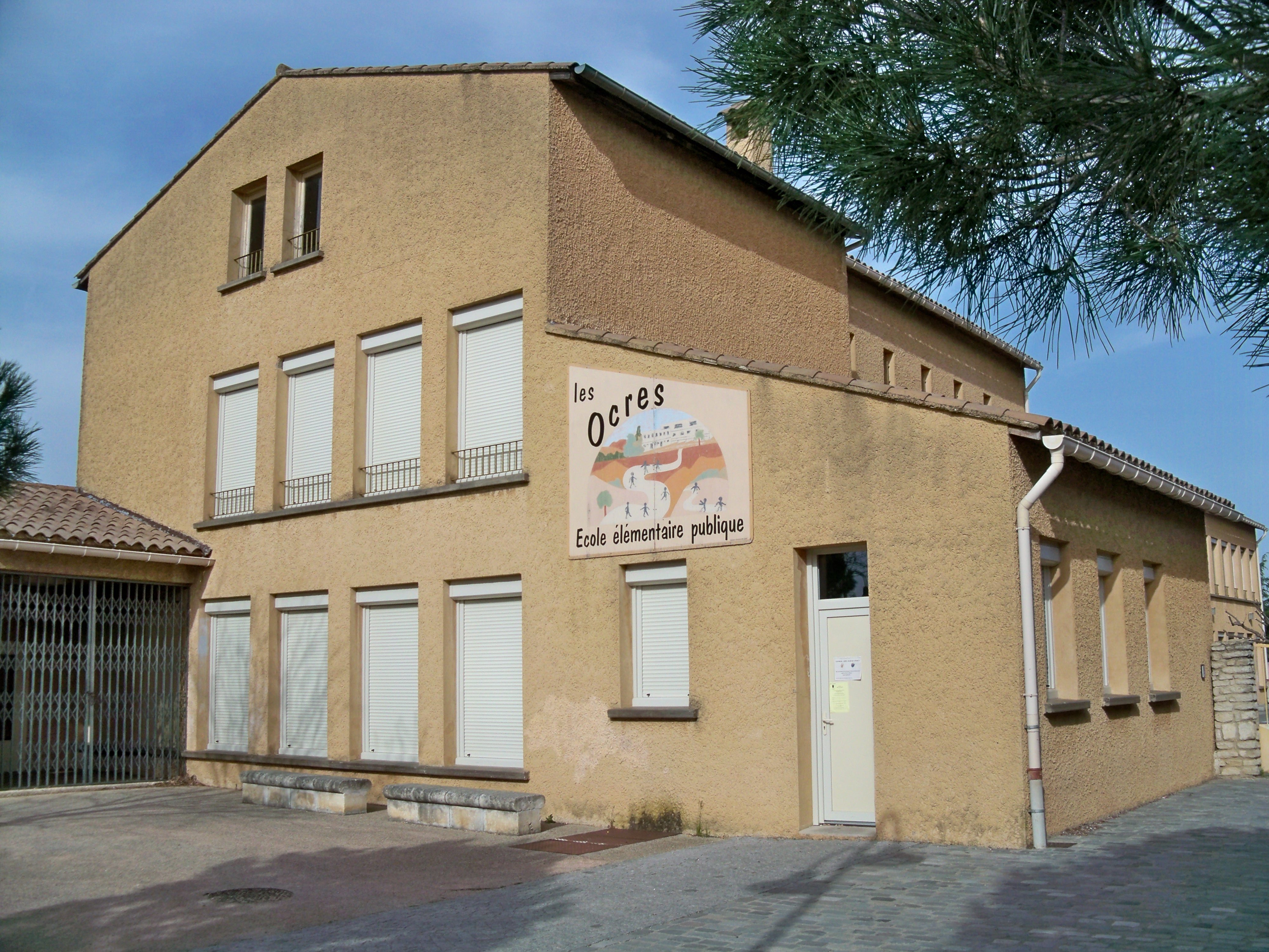 elemantary school in Gargas, Vaucluse, France